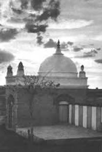 Meher Baba's tomb dome, 1938